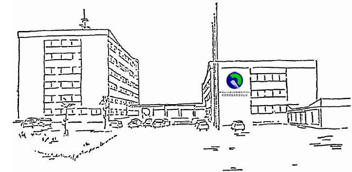 Police College of Finland in Otaniemi, Espoo, Finland